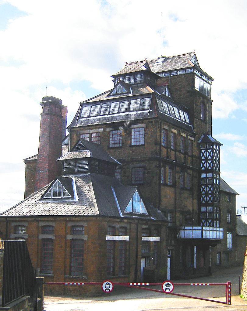 The Brewery, Hook Norton, Oxfordshire 17 April 2006. Photographer: Fin Fahey